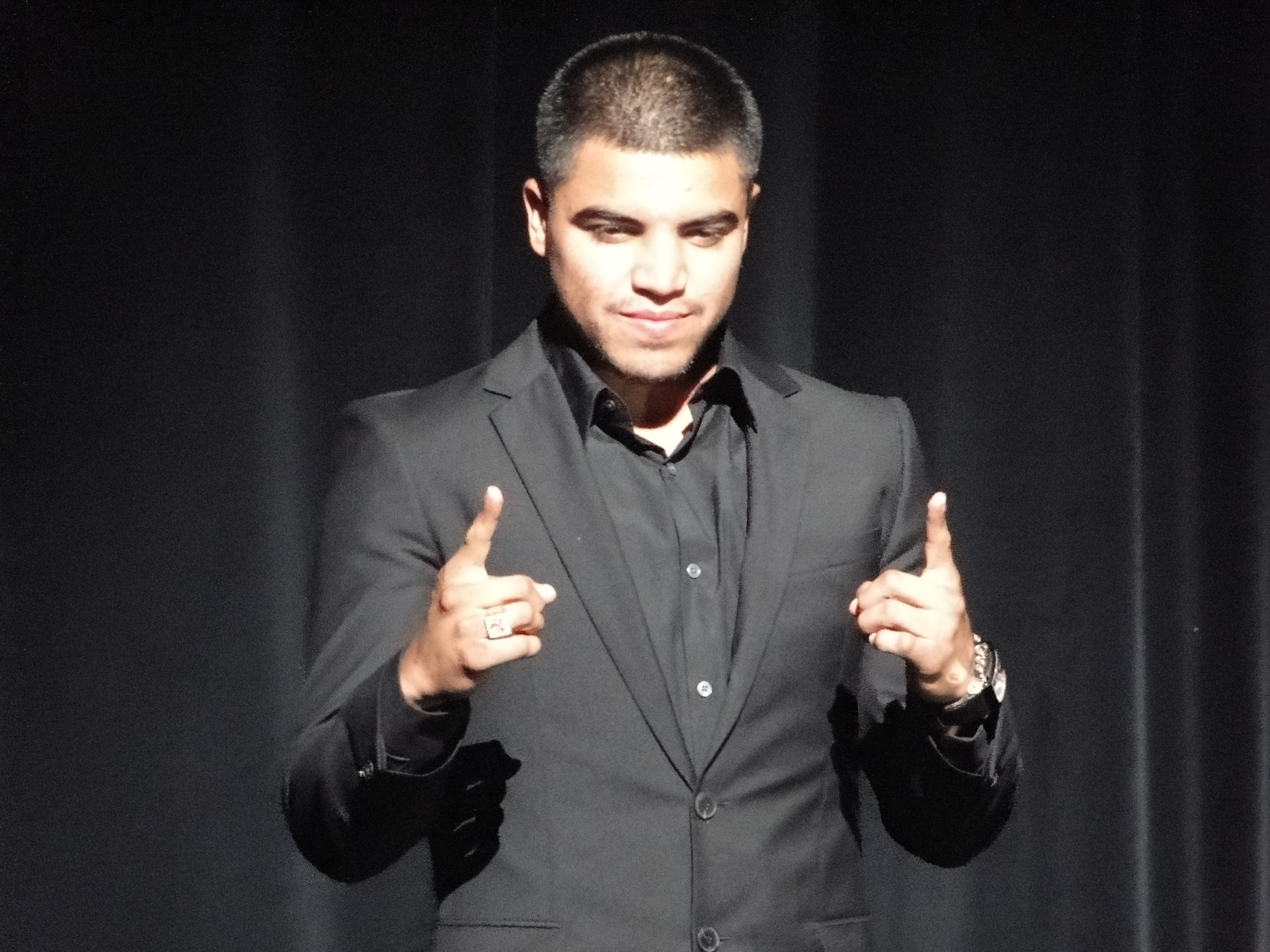 American boxer Victor Ortiz